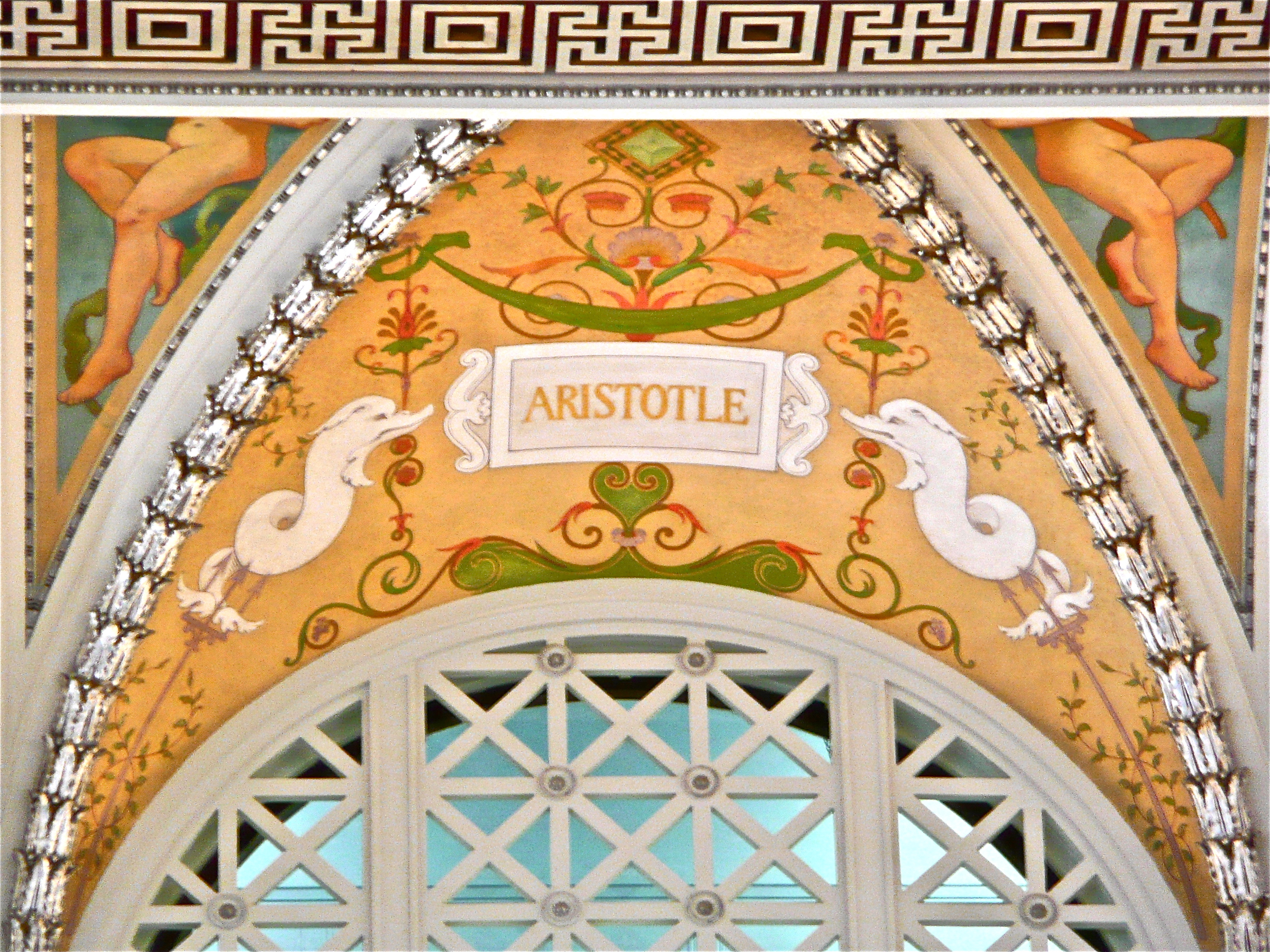 Aristotle. Ceiling in the Great Hall, Thomas Jefferson Building, Library of Congress, Washington, D.C.. Taken at 2012 Flicker photography meetup.